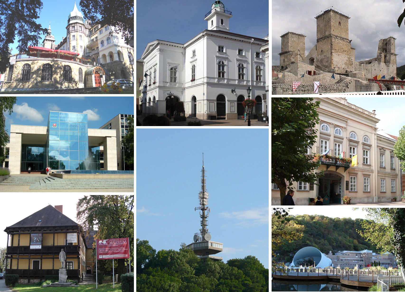 Montage Miskolc. Use the following images: PalaceHotel07.jpg UnivMiskolc_Main.jpg Hermann Ottó Múzeum (2963. számú műemlék) 2.jpg Avas_TVTower_sharp.jpg Miskolc National Theatre 11.jpg Huszárvár_(11559._számú_műemlék).jpg CityHallMiskolc01.jpg Tap_Barl01.jpg